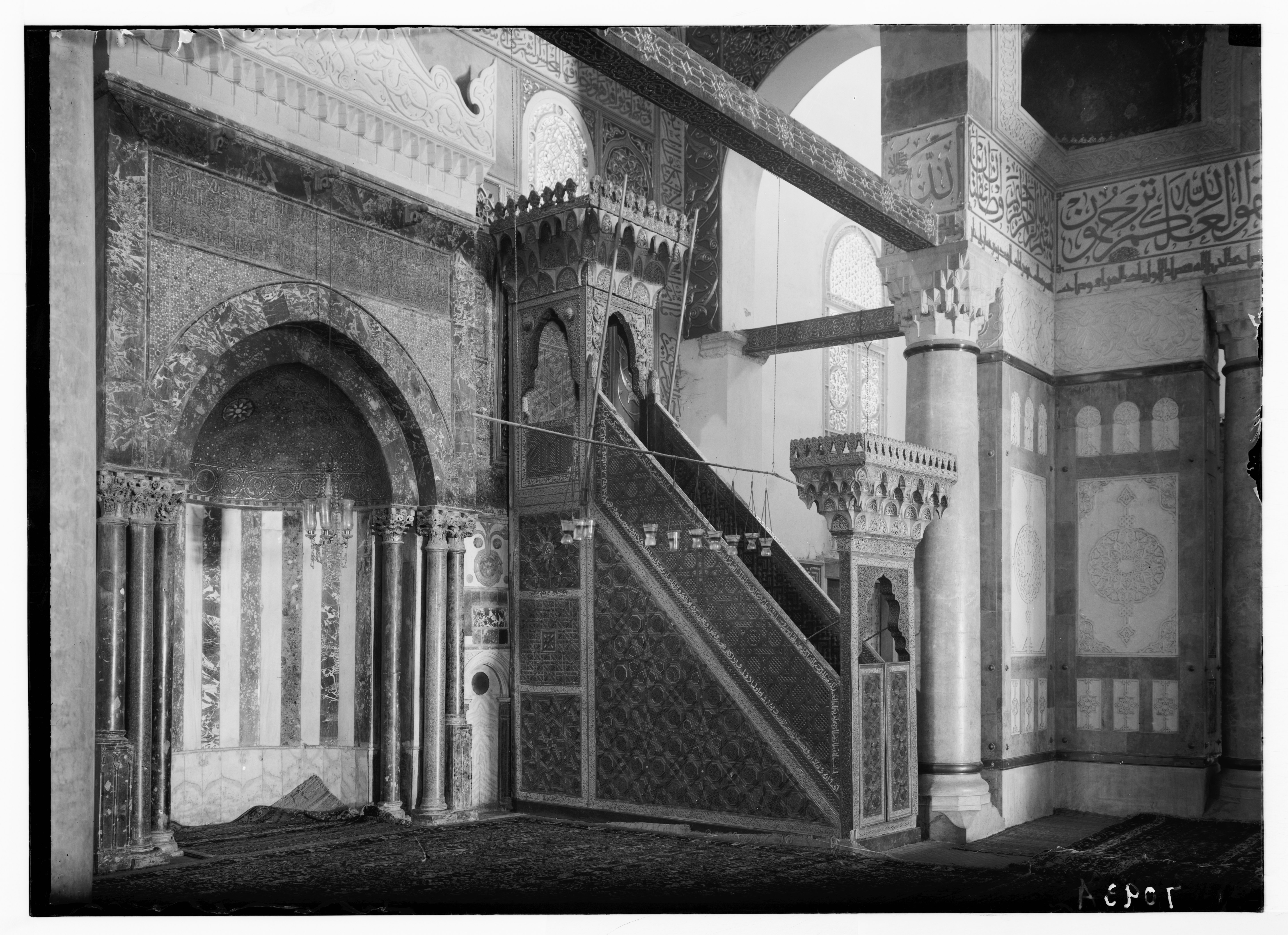 Title: El Aksa [i.e., al-Aqsa] Mosque. Cedar pulpit & mihrab Abstract/medium: G. Eric and Edith Matson Photograph Collection Physical description: 1 negative